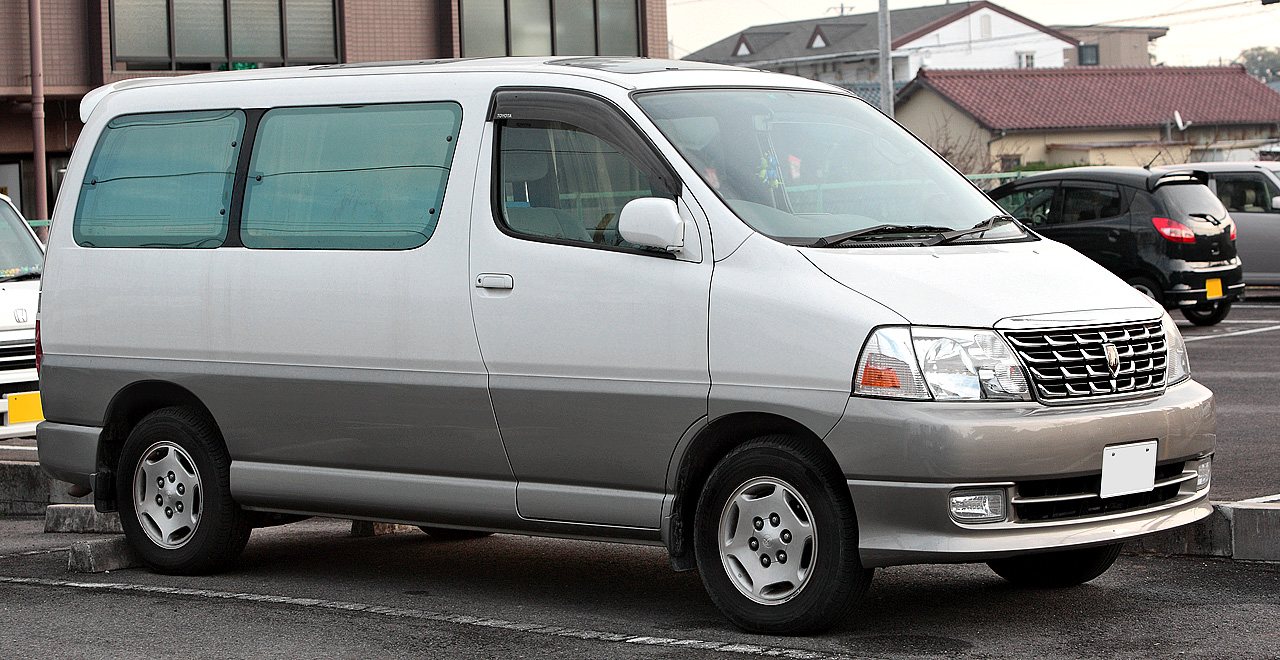 Toyota Grand Hiace ( VCH10W )